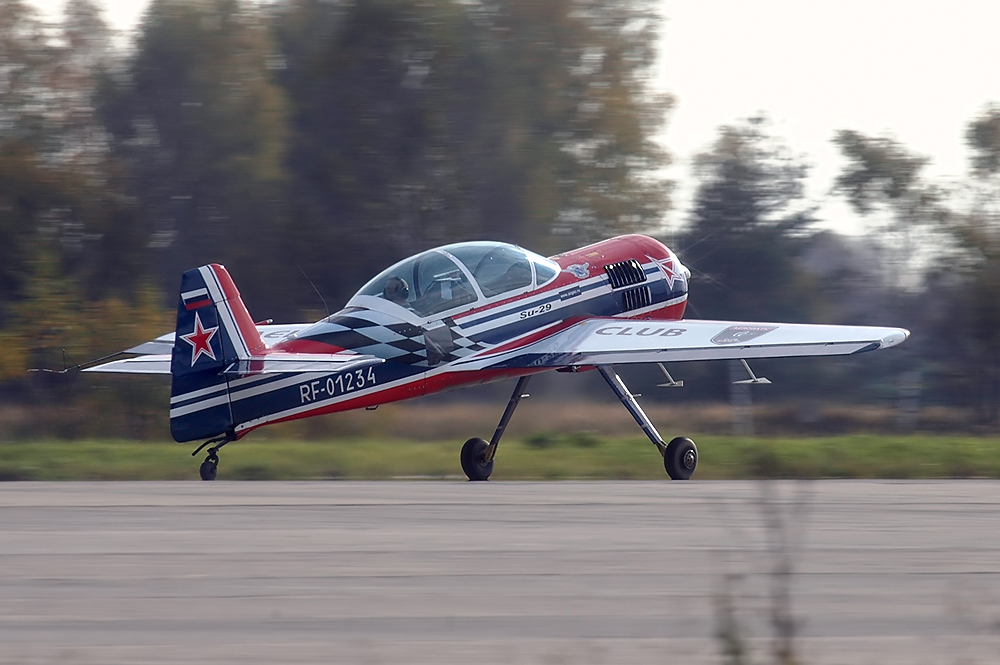 Su-29 at Kubinka airfield Author: Dmitry A. Mottl email: dm_at_mottl.ru